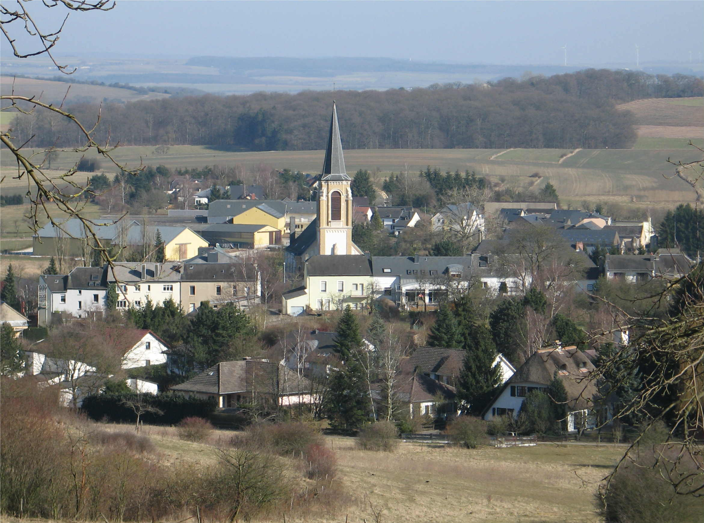 A view of Schuttrange, Luxembourg